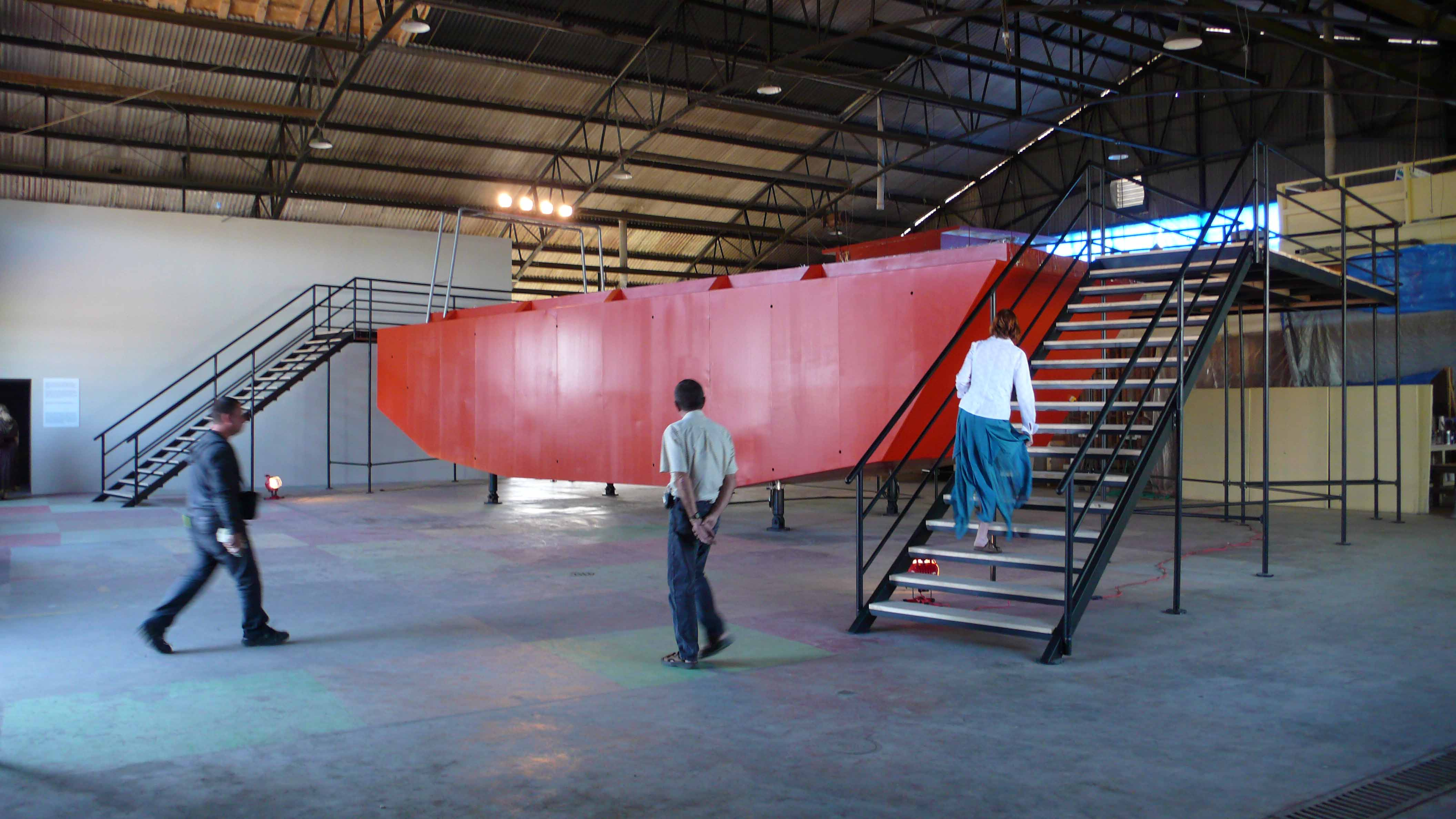 Rescue Games (2008) Estruturas metálicas, madeira, sistemas mecânicos e elétricos, sistema eletrônico, água.